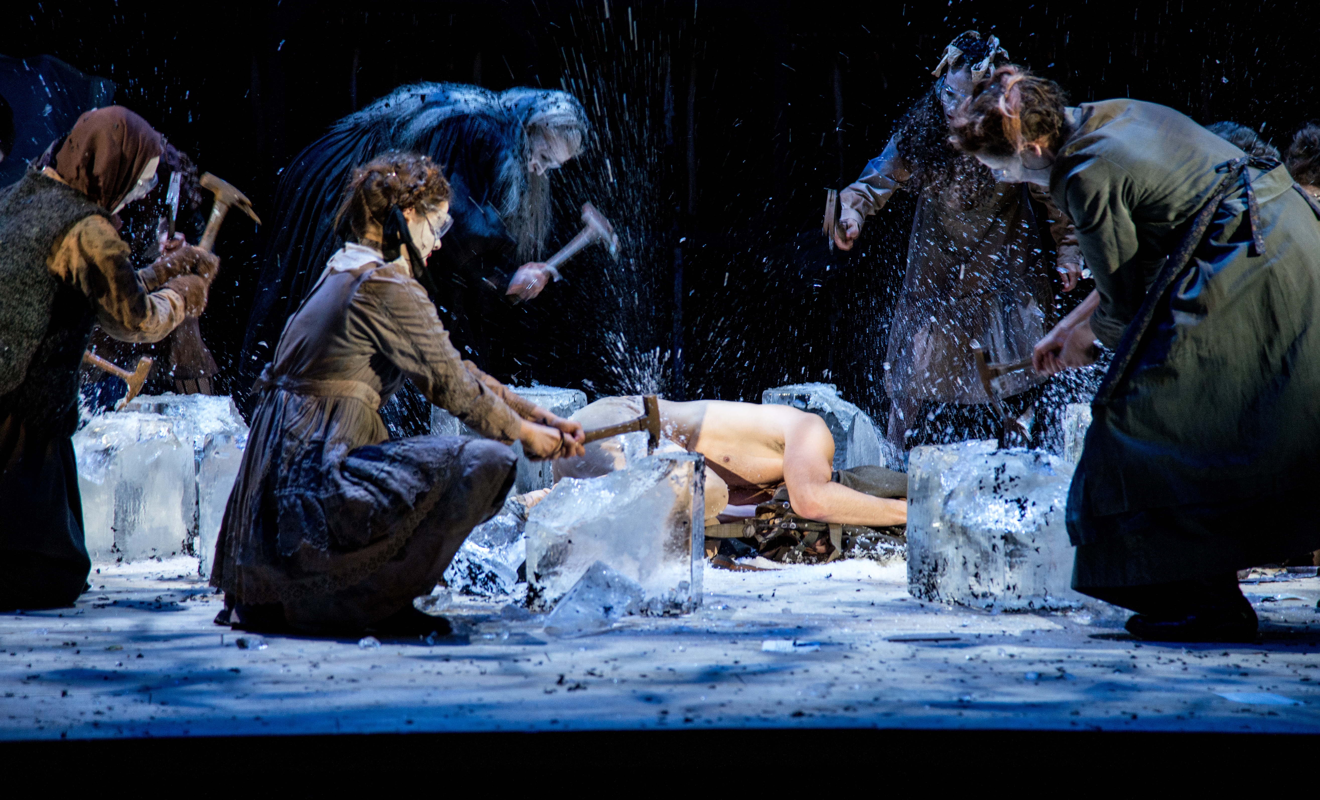 Don Juan kommt aus dem Krieg, Salzburger Festspiele 2014, Sonja Beißwenger, Olivia Grigolli, Sabine Haupt, Traute Hoess, Elisa Plüss, Nele Rosetz, Janina Sachau, Natali Seelig, Max Simonischek and Michaela Steiger